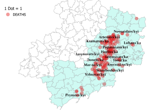 This is a map made in ArcGisPro with data gathered from . It's a dot density map showing reported deaths of Pro-Ukrainian soldiers in the War in the Donbass region of Ukraine in 2018.